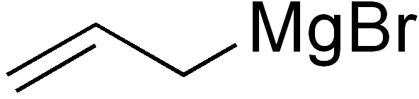 chemical structure of allymagnesium bromide